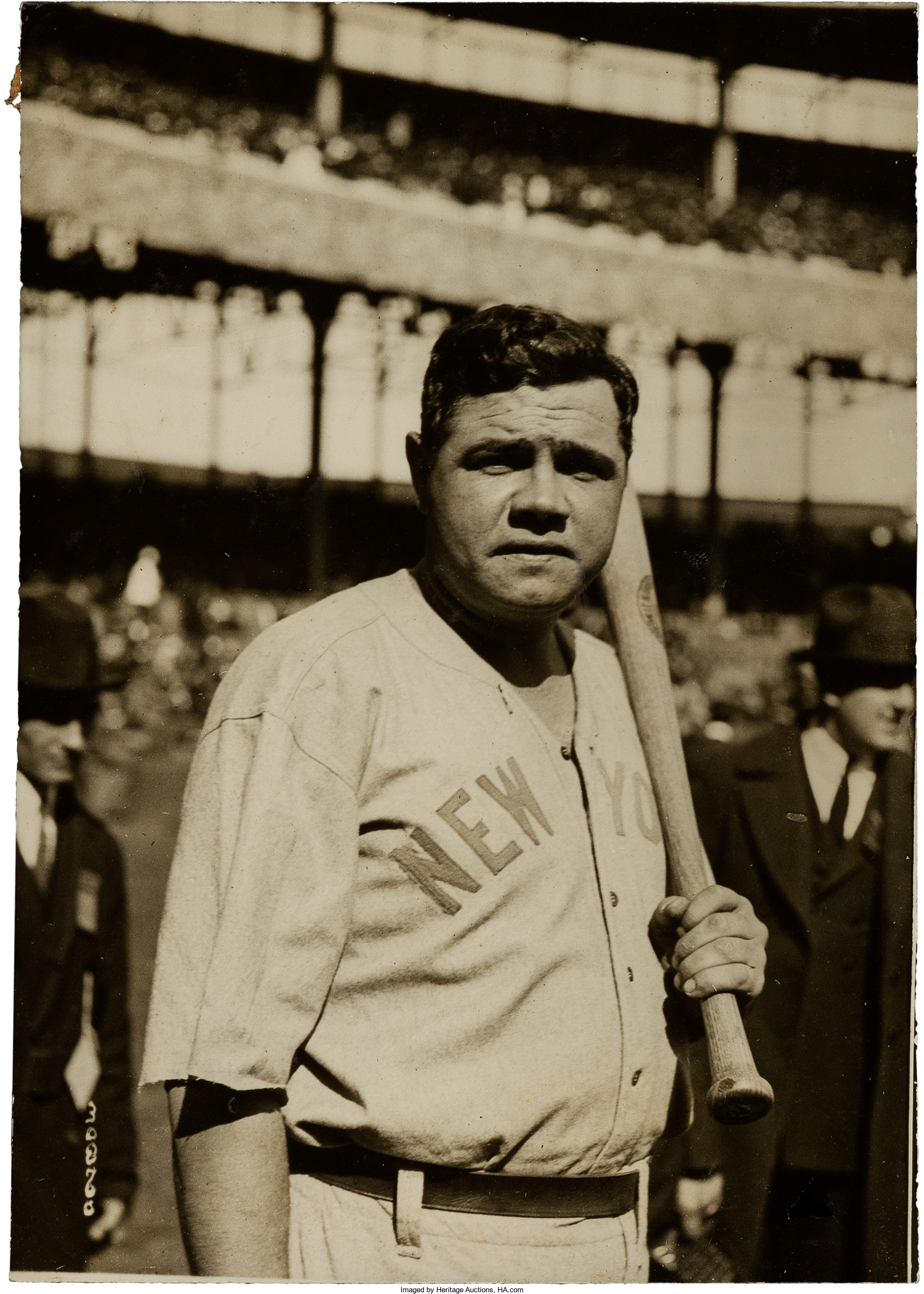 The Babe wears his road greys at the Polo Grounds